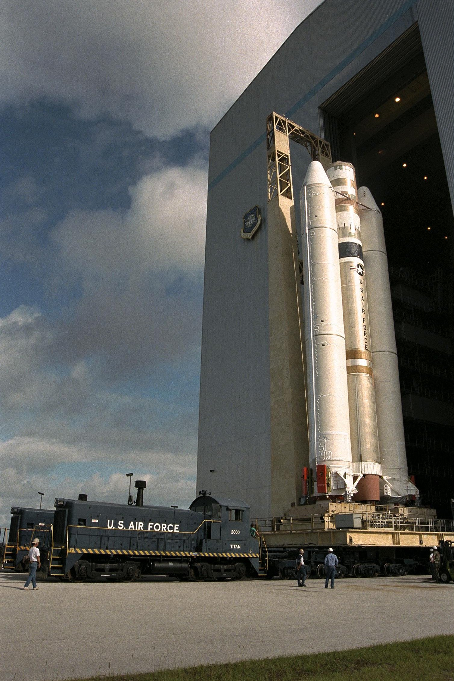 A Titan IVB core vehicle and its twin Solid Rocket Motor Upgrades (SRMUs) depart from the Solid Rocket Motor Assembly and Readiness Facility (SMARF), Cape Canaveral Air Station (CCAS), en route to Launch Complex 40. At the pad, the Centaur upper stage will be added and, eventually, the prime payload, the Cassini spacecraft. Cassini will explore the Saturnian system, including the planet’s rings and moon, Titan. Launch of the Cassini mission to Saturn is scheduled for Oct. 6 from Pad 40, CCAS